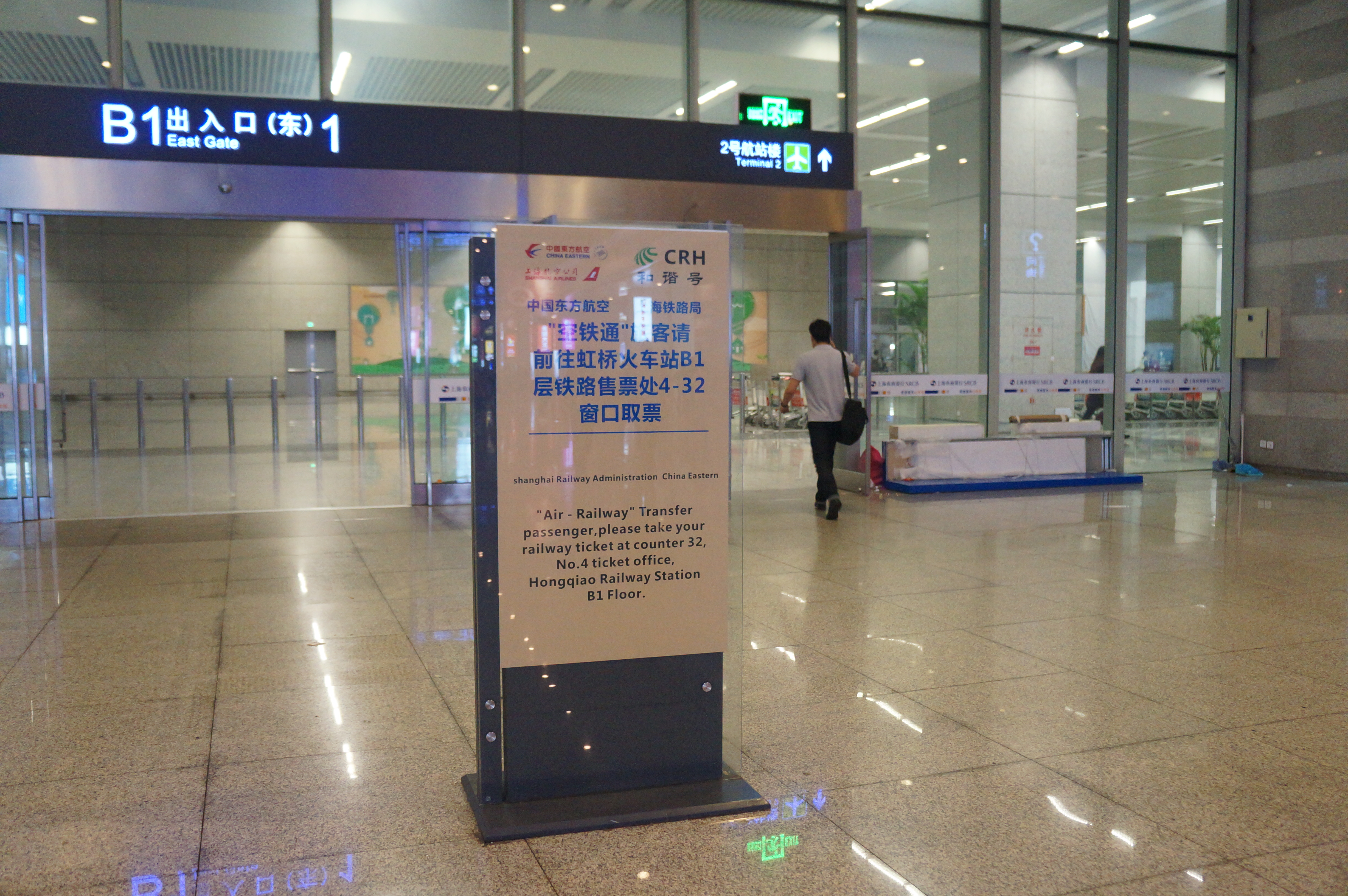 201610 Air–Rail transferring notice at SHQ, by CES Shanghai Airlines and Shanghai Railway Bureau